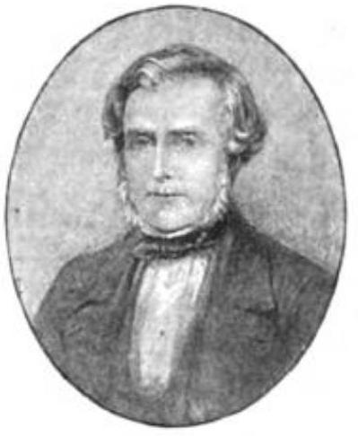 Watercolor portrait of Archibald Henning by his son Walton Henning